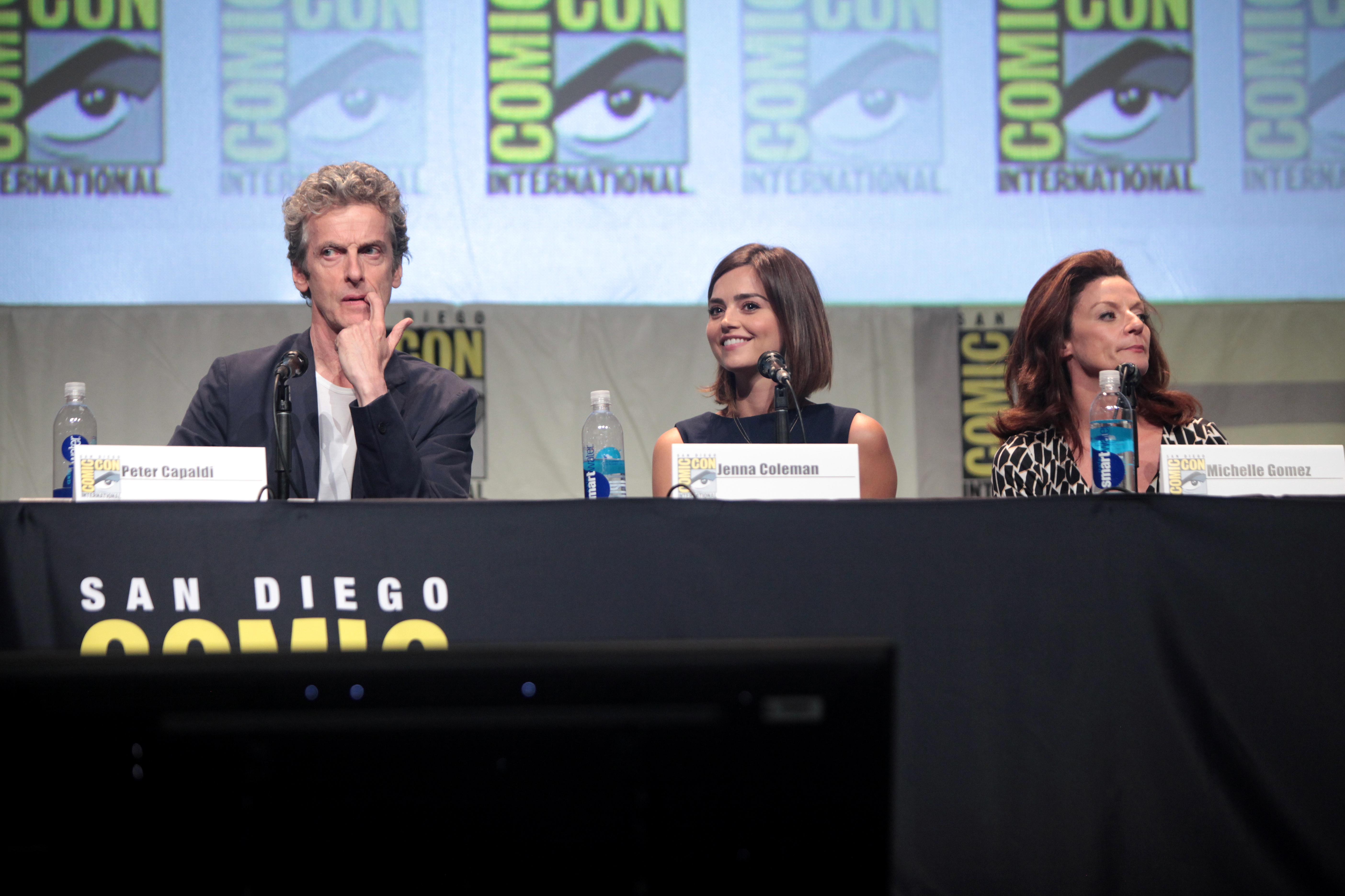 Peter Capaldi, Jenna Coleman and Michelle Gomez speaking at the 2015 San Diego Comic Con International, for "Doctor Who", at the San Diego Convention Center in San Diego, California.